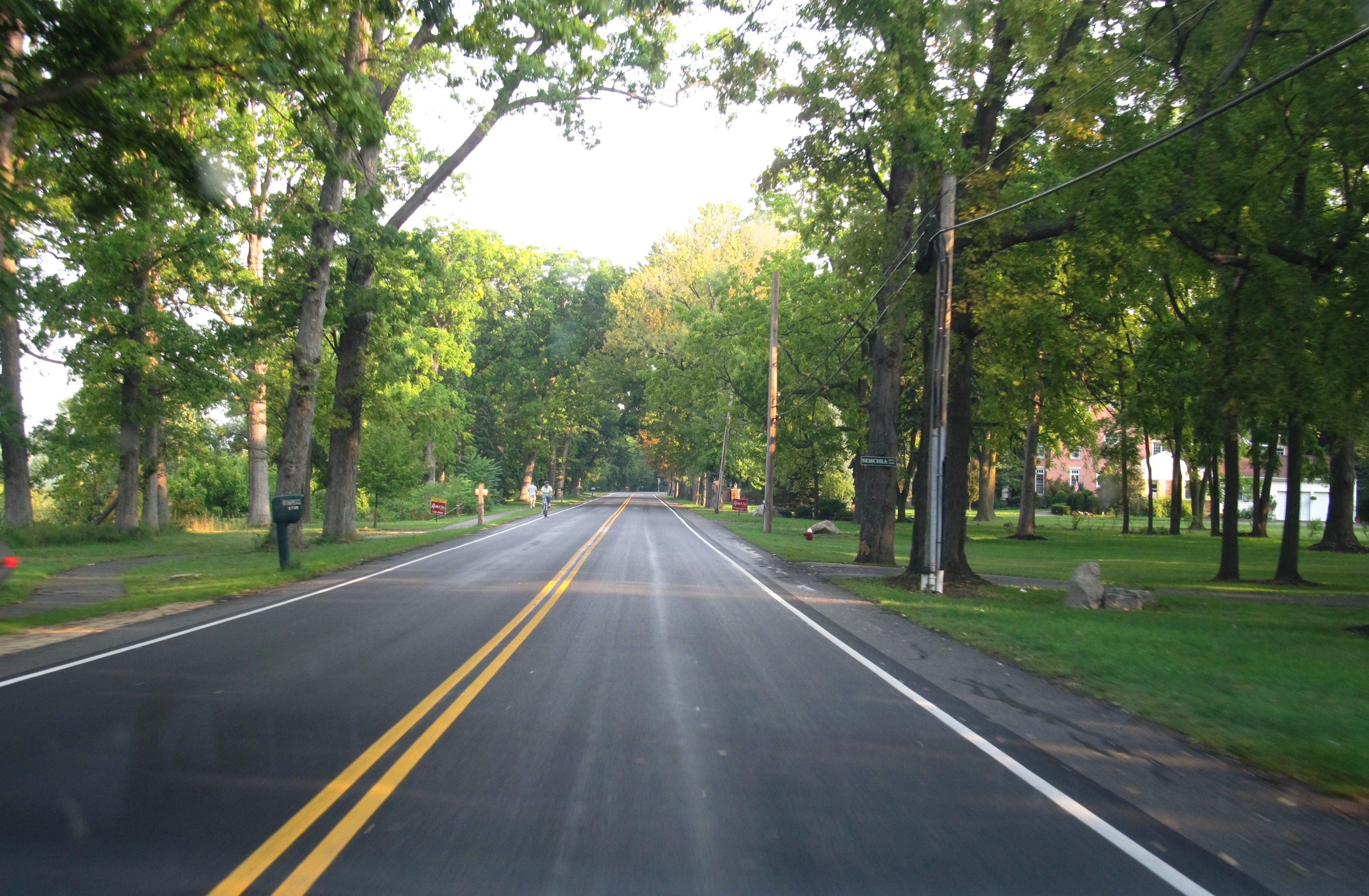 Joseph Davis State Park is located in the Town of Lewiston in Niagara County, New York. The park is near the Niagara River. This park has a free 27-hole disc golf course with restrooms and campground nearby. It has a finishing point of The Amazing Race: Family Edition when the Linz family had won.